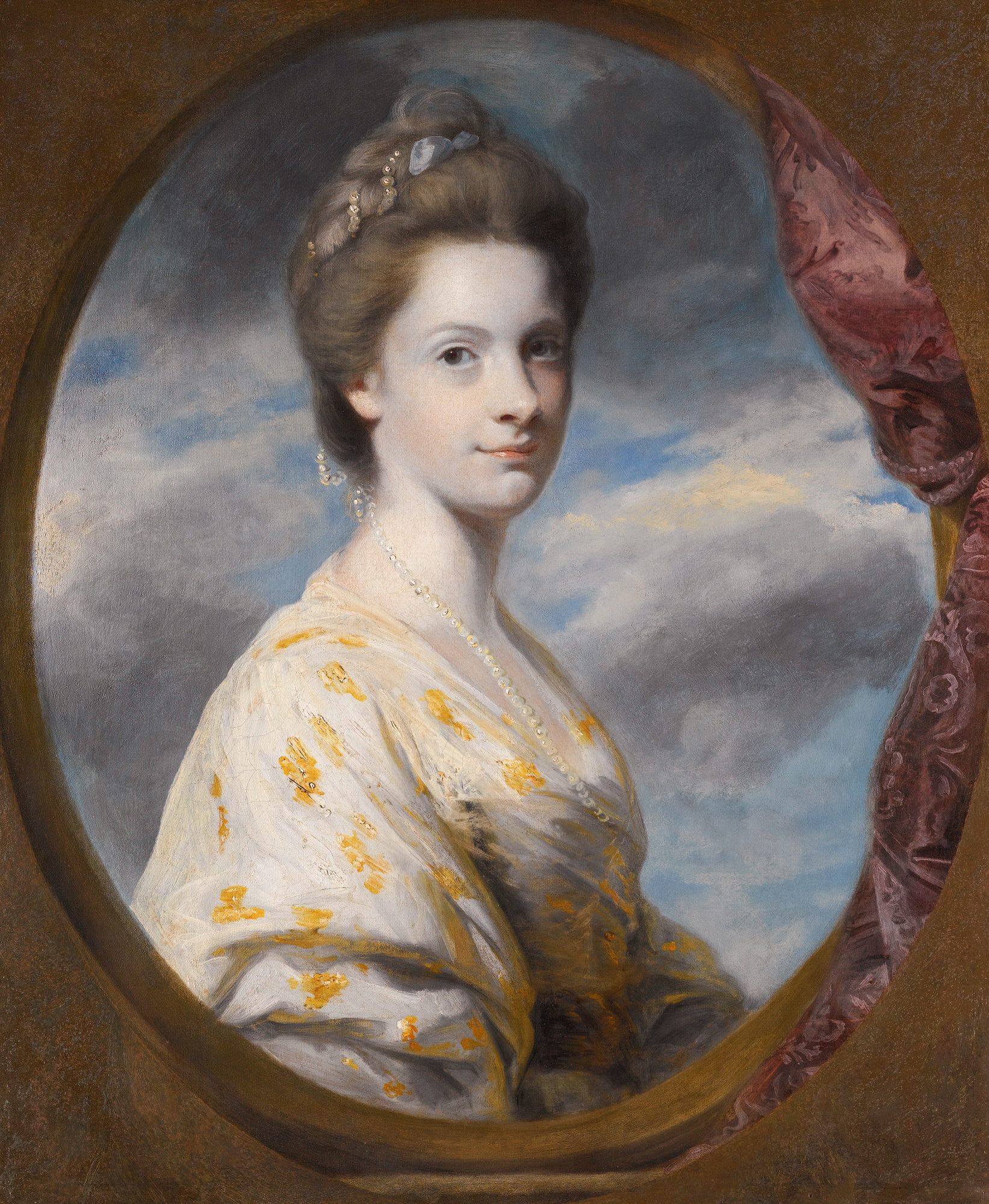 Sophia, mrs Edward Southwell, later Lady de Clifford (1743-1828) oil on canvas 79.5 by 65.5 cm 1766